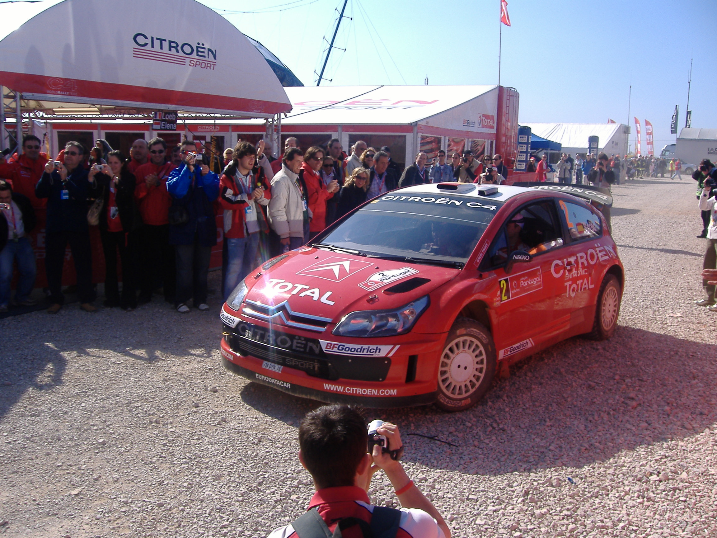 Dani Sordo in Rally of Portugal 2007.